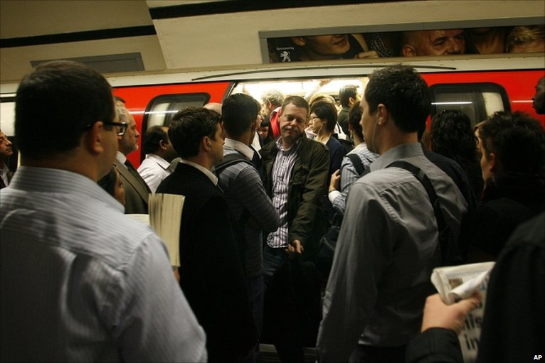 Congestion on the London Underground